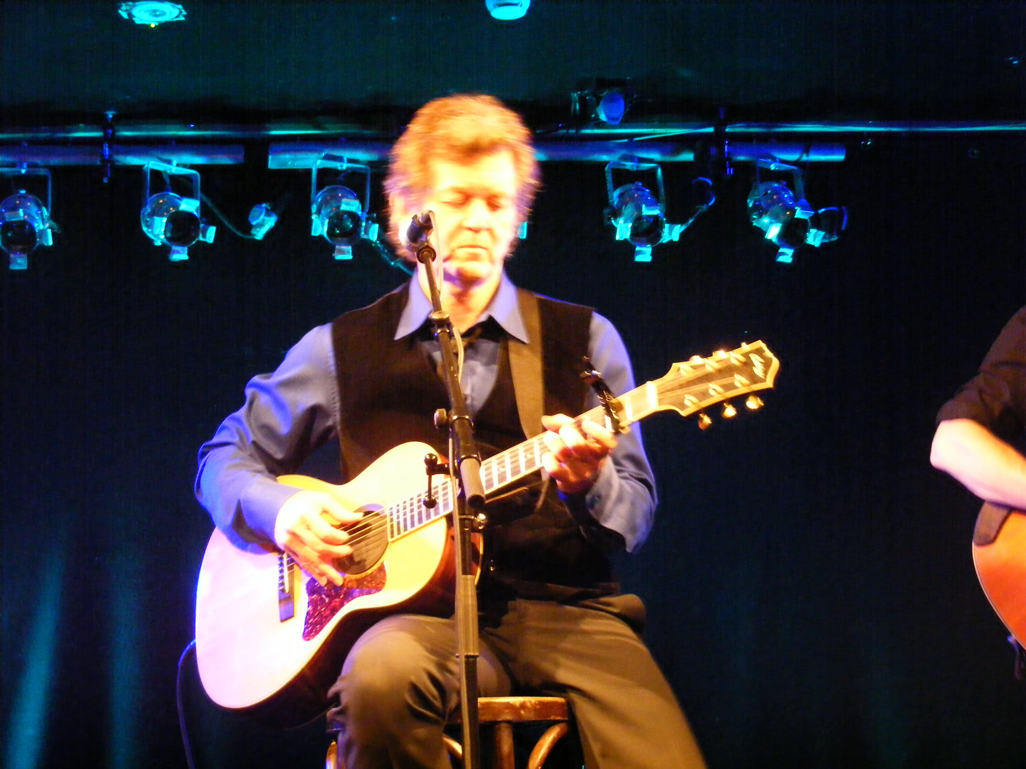 Rodney Crowell and his band on stage at Whelans, Wexford St., Dublin on Wednesday 28th January, 2009.